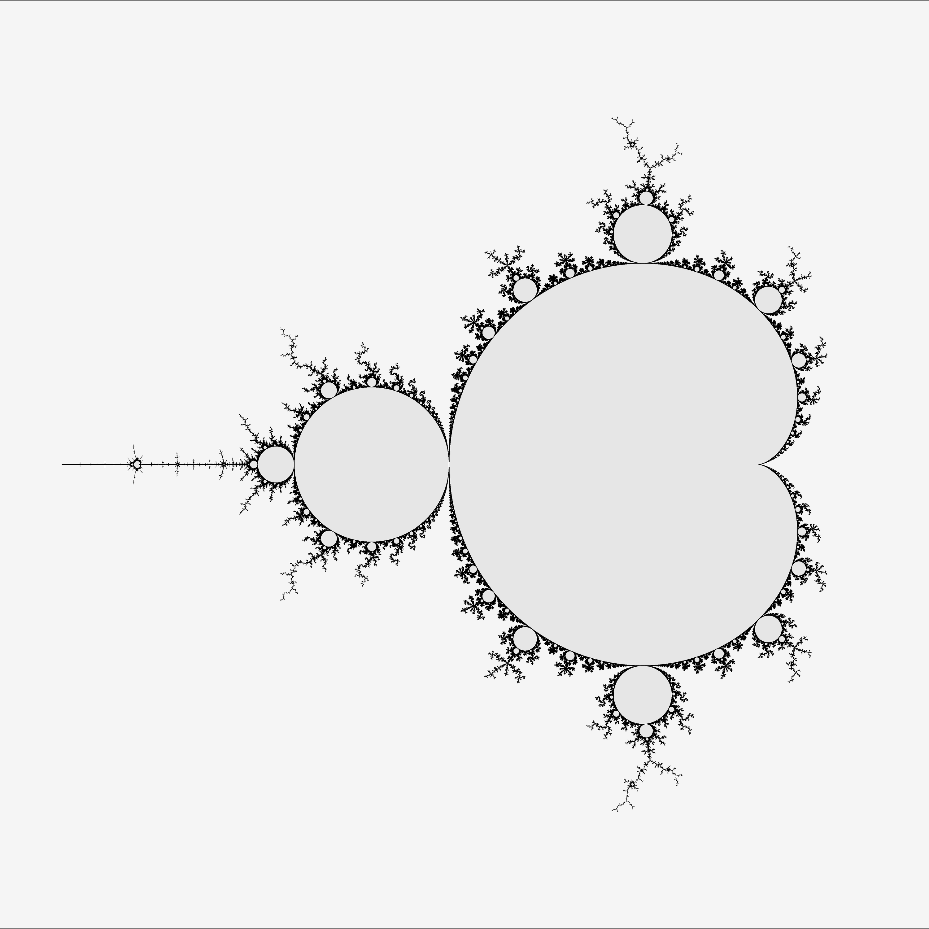 Boundary of Mandelbrot set. It is made with DEM/M and edge detection of boundaries of hyperbolic components